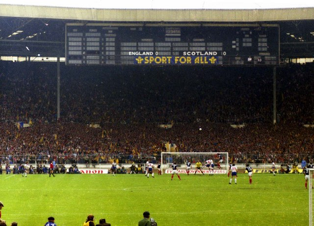 The Scoreboard end in the old Wembley Stadium